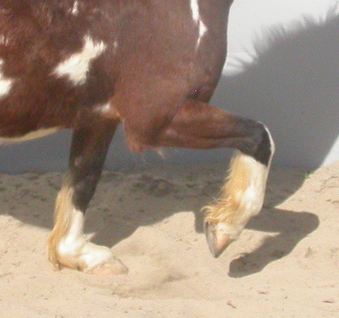 Flexion of the pastern joint (left forelimb) uses an extensive system of tendons as a "shock absorber".